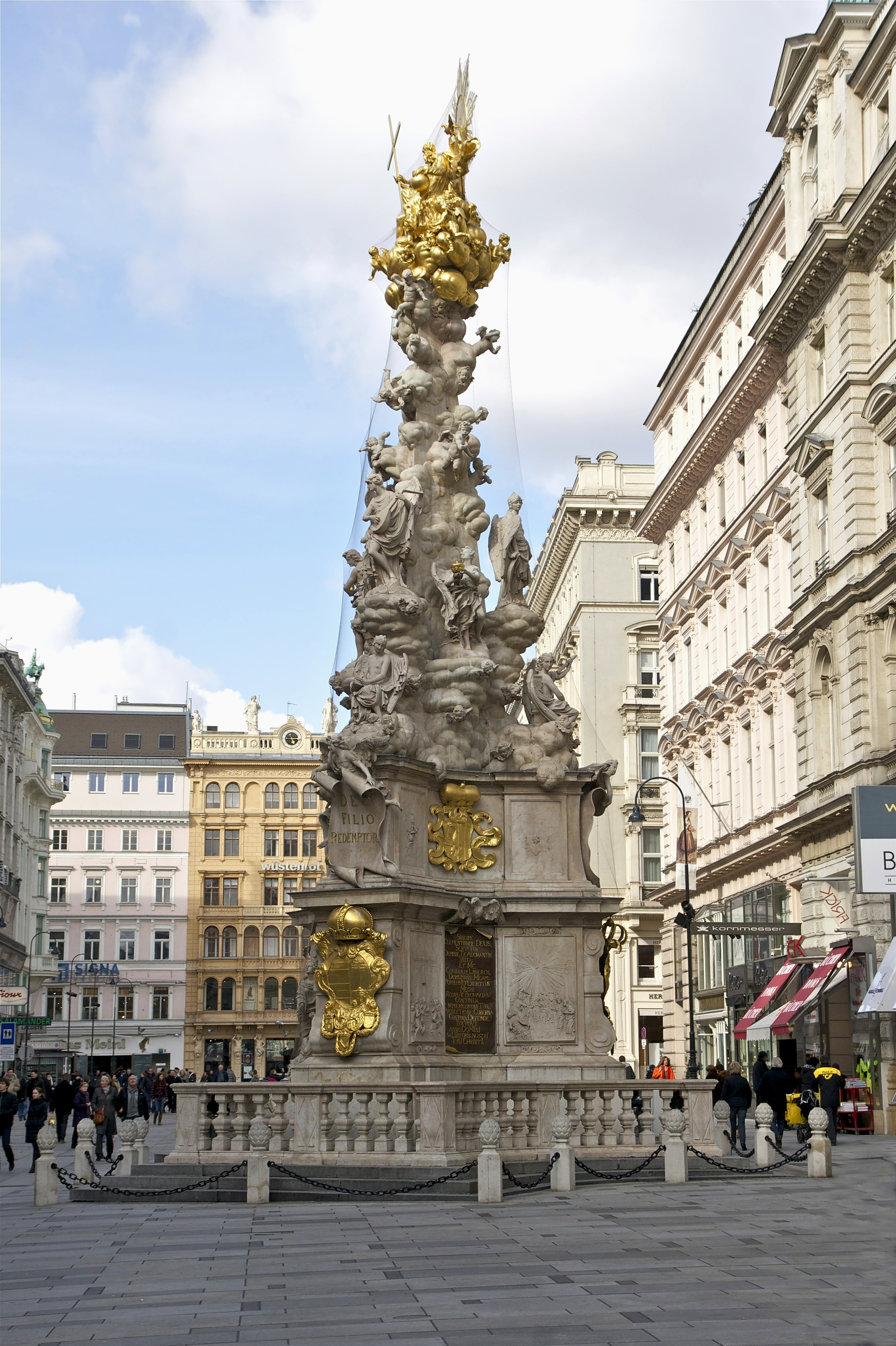 The Plague Column ("Pestsäule") on Graben, in Vienna, Austria.